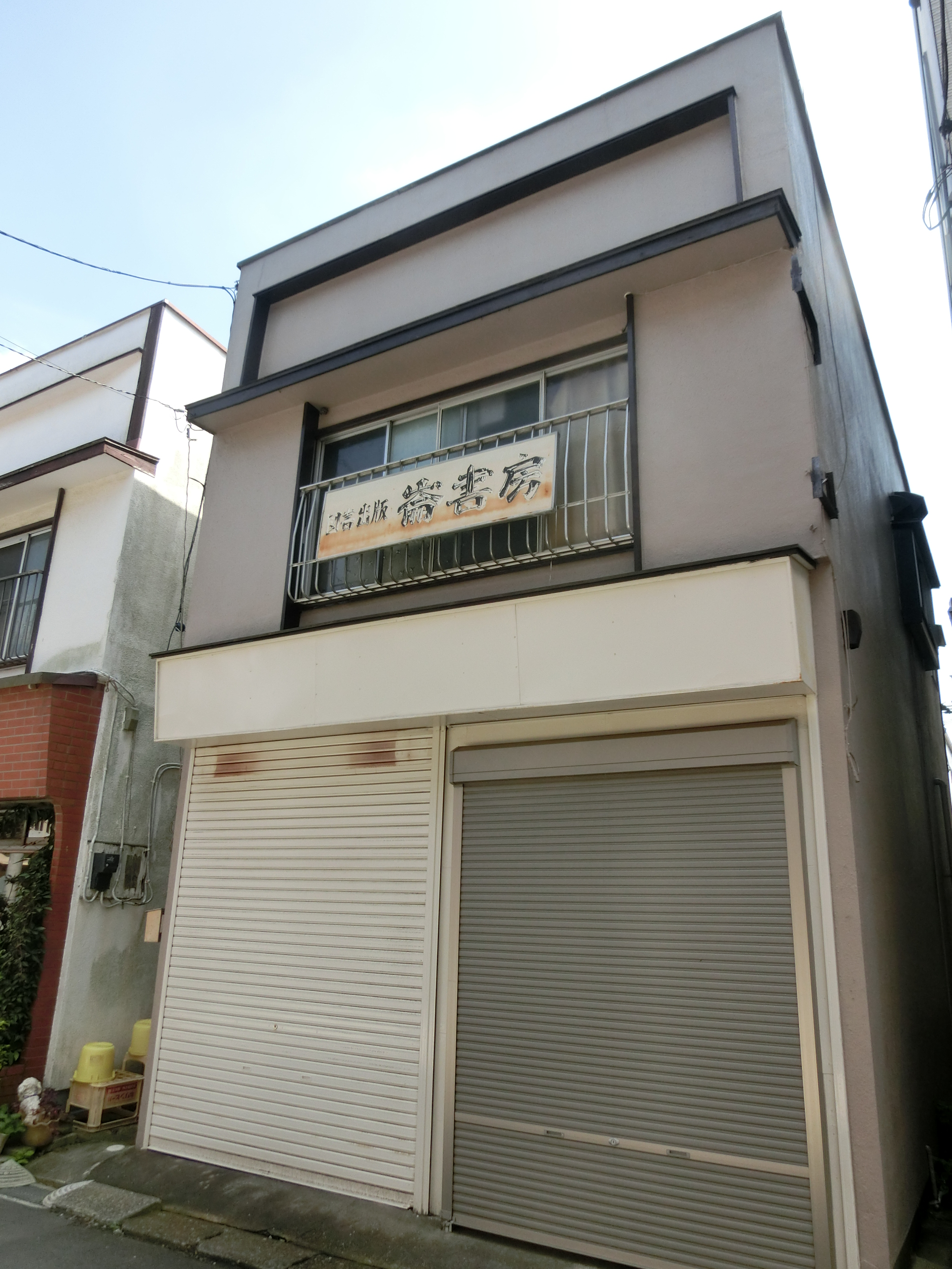 Ronsyobou Co.,Ltd. Head Office